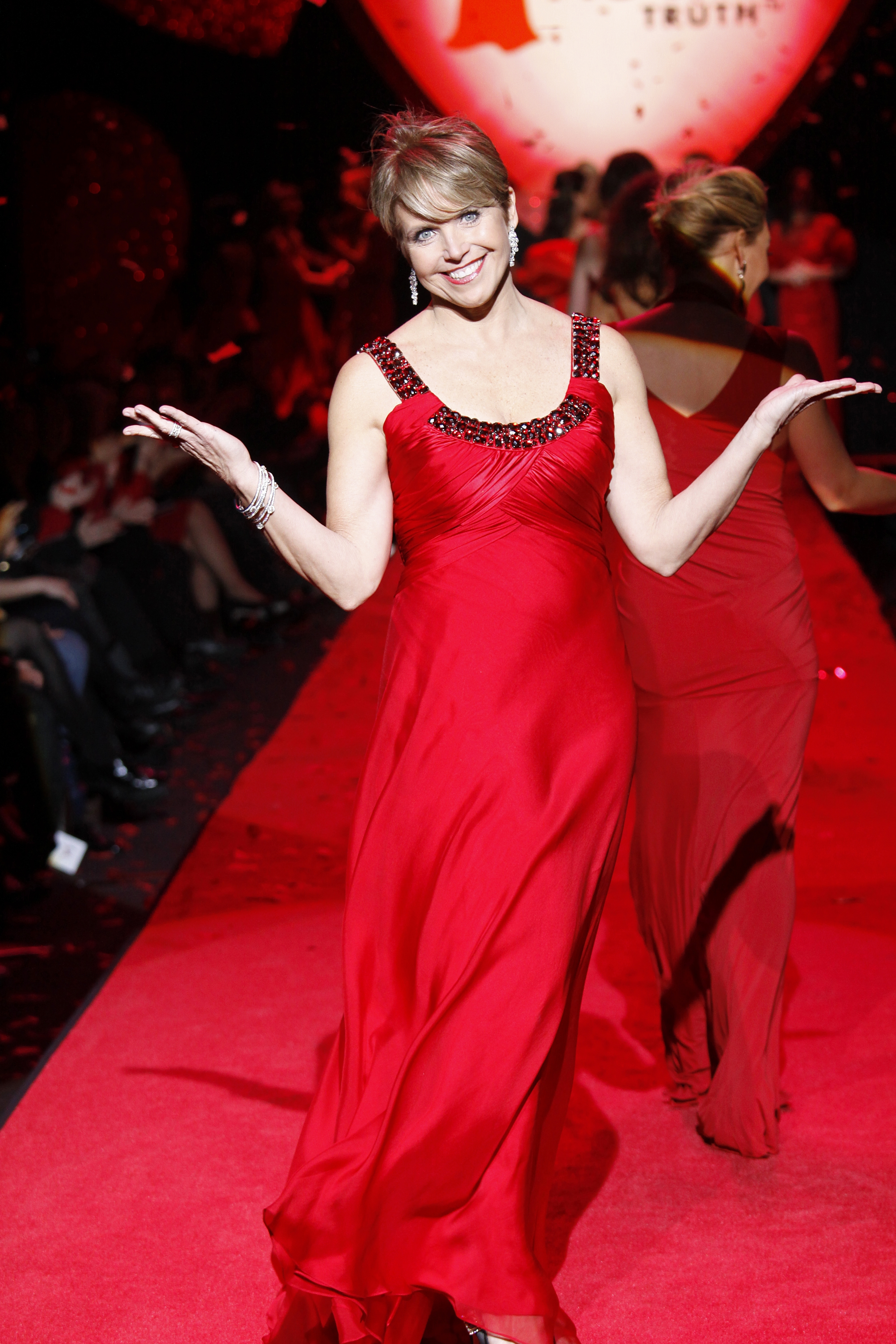 Katie Couric on the runway at The Heart Truth's Red Dress Collection Fashion Show during New York Fashion Week. February 13, 2009 at Bryant Park.